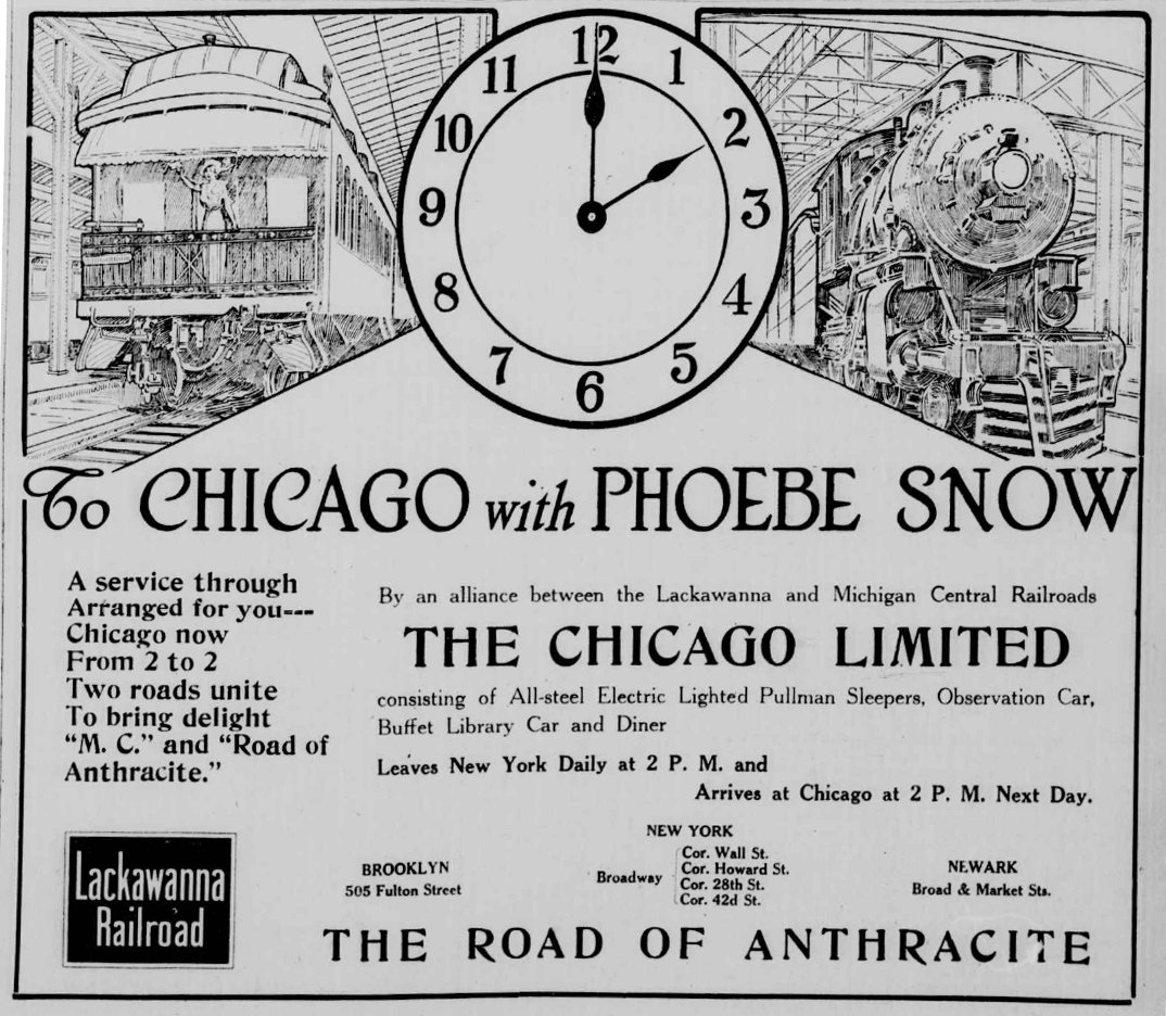 Cropped from the newspaper shown. Ad for the Chicago Limited passenger train, via the Michigan Central and Lackawanna Railroads. Leave one town at 2pm, get to the next at 2pm the next day.